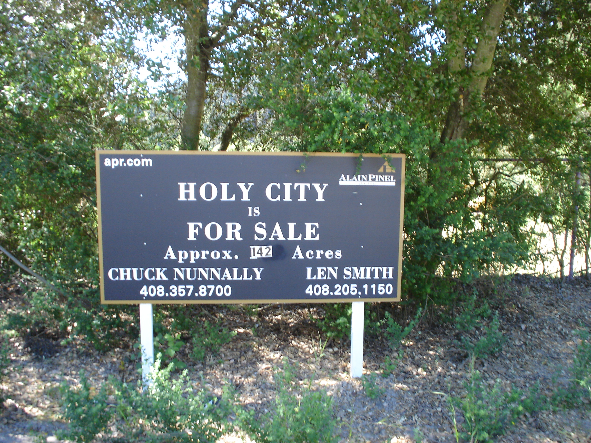 "Holy City is for sale" sign, Holy City, California